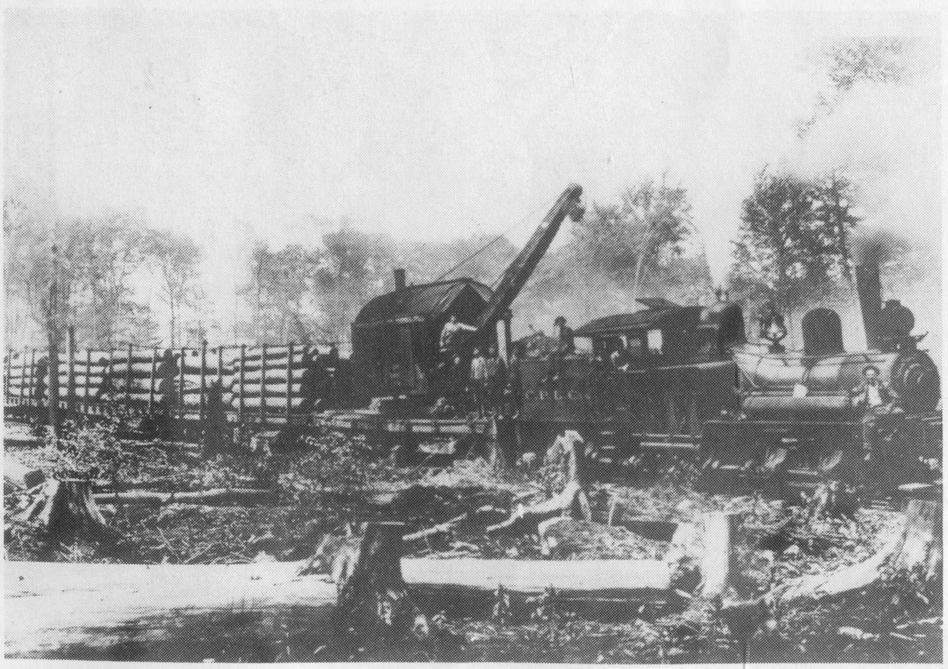 A locomotive of the Central Pennsylvania Lumber Company (engine labeled CPL Co.) in what is now the Moshannon State Forest in Pennsylvania in the United States.